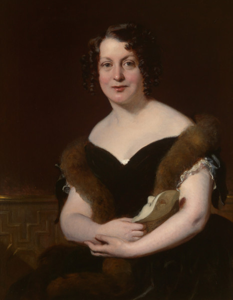 Fanny Elizabeth Fitzwilliam by John Prescott Knight. before 1850